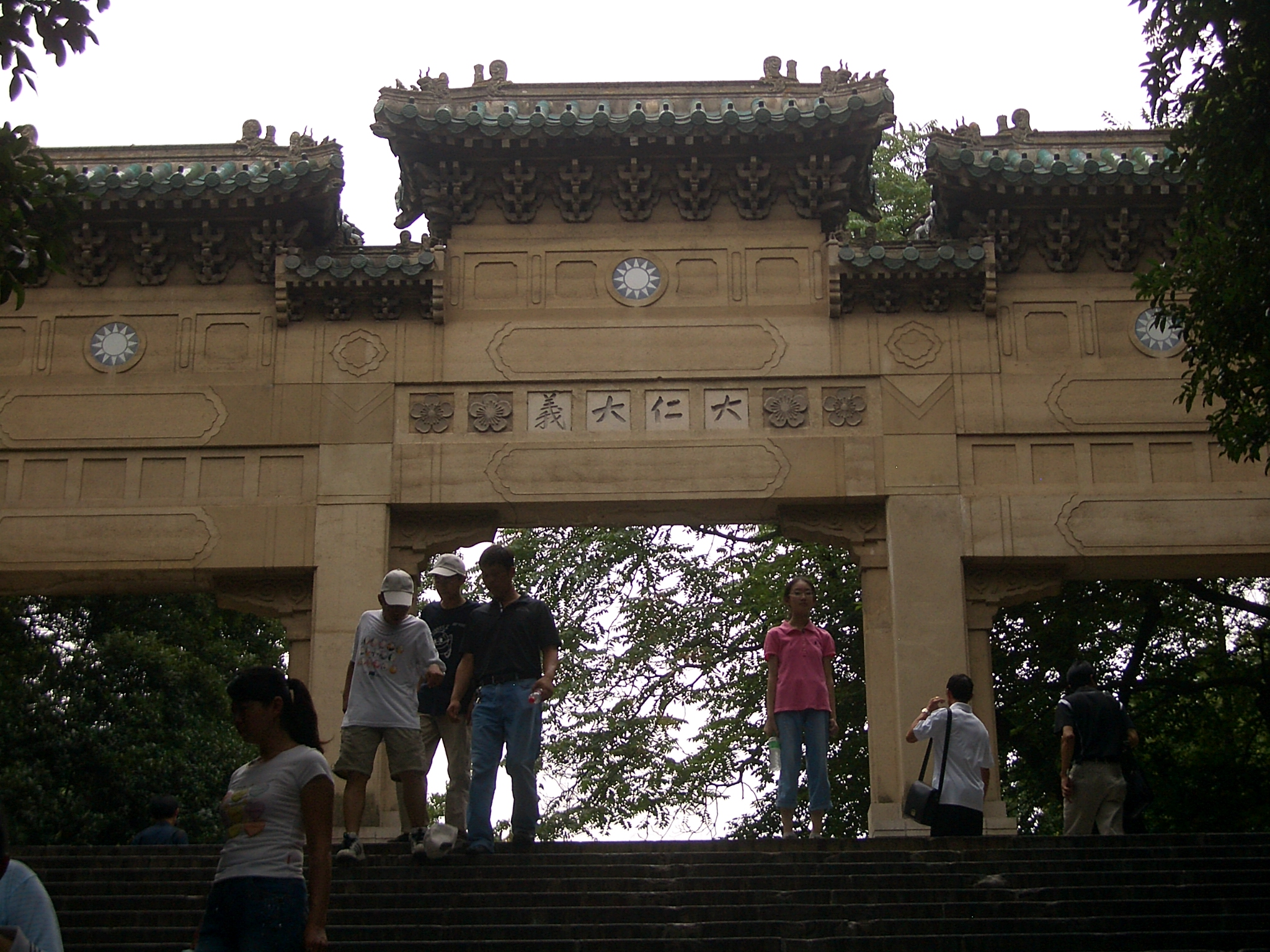 Gates near the entry to Entering Linggu Scenic Area